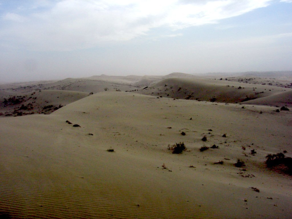 Landscape in Taklamakan desert near Yarkand, Autonomous Region of Xinjiang, China.